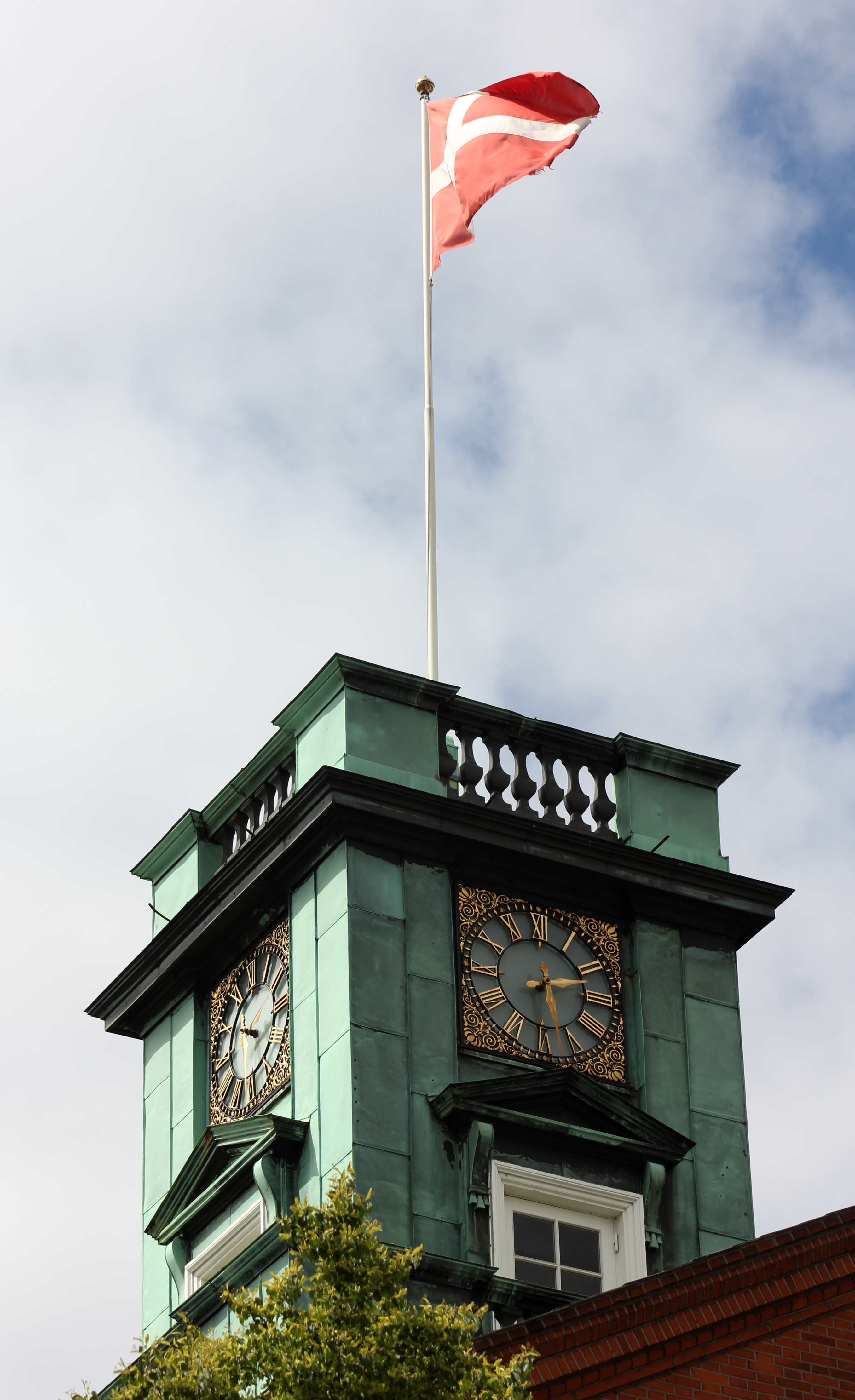 Cityhall tower.There have been town hall on the site since the 1500's. Kolding, Denmark.